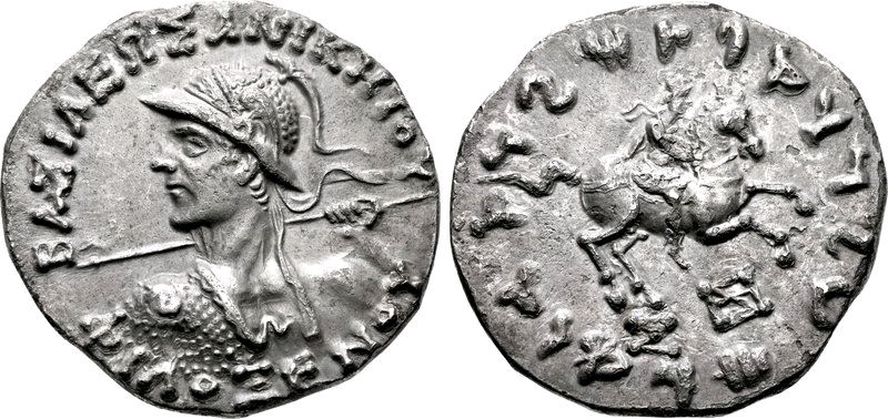 Philoxenos with head of Gorgon